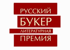 Logo of the Russian Booker Prize